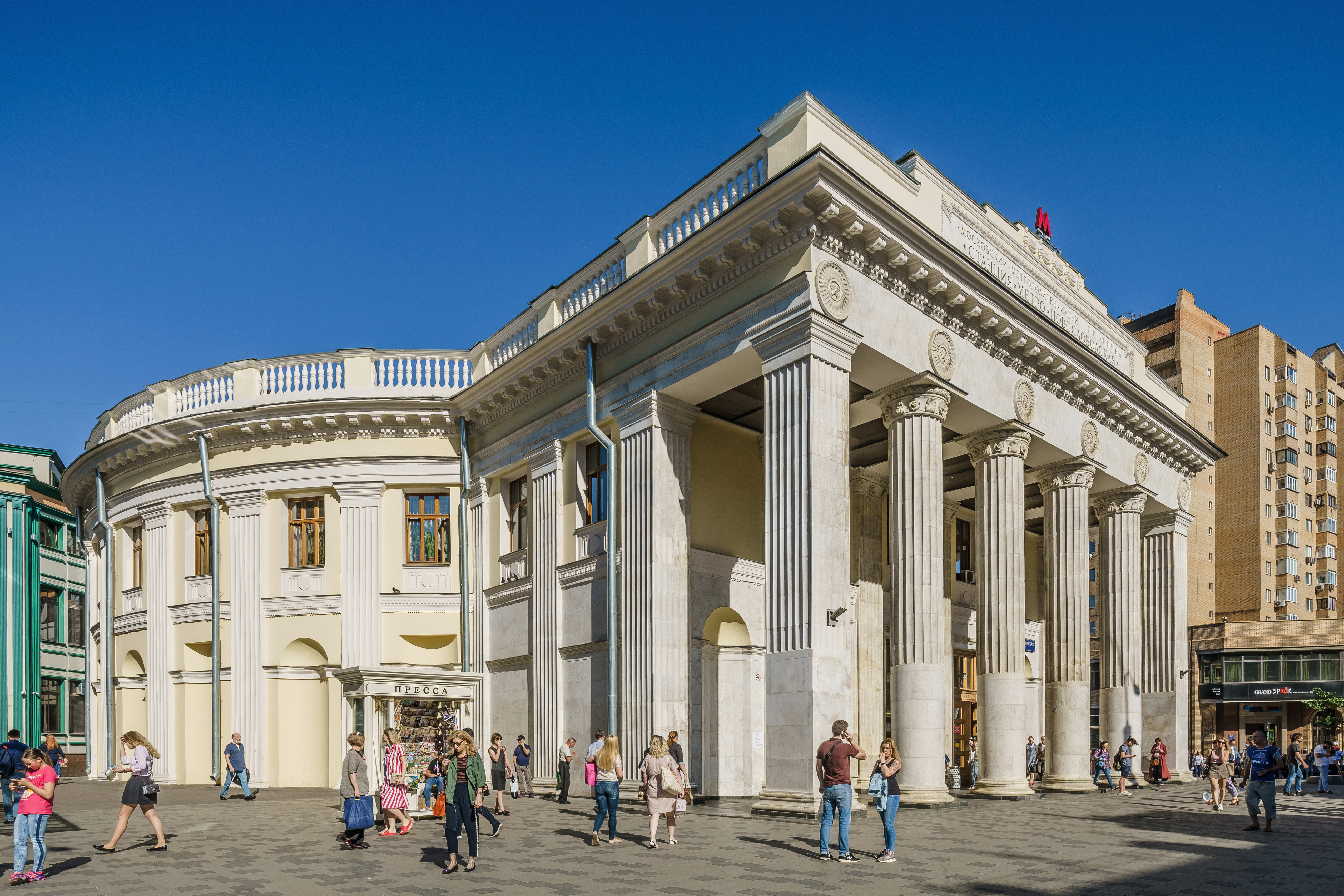 Entrance building of Novoslobodskaya metro station in Moscow, Russia